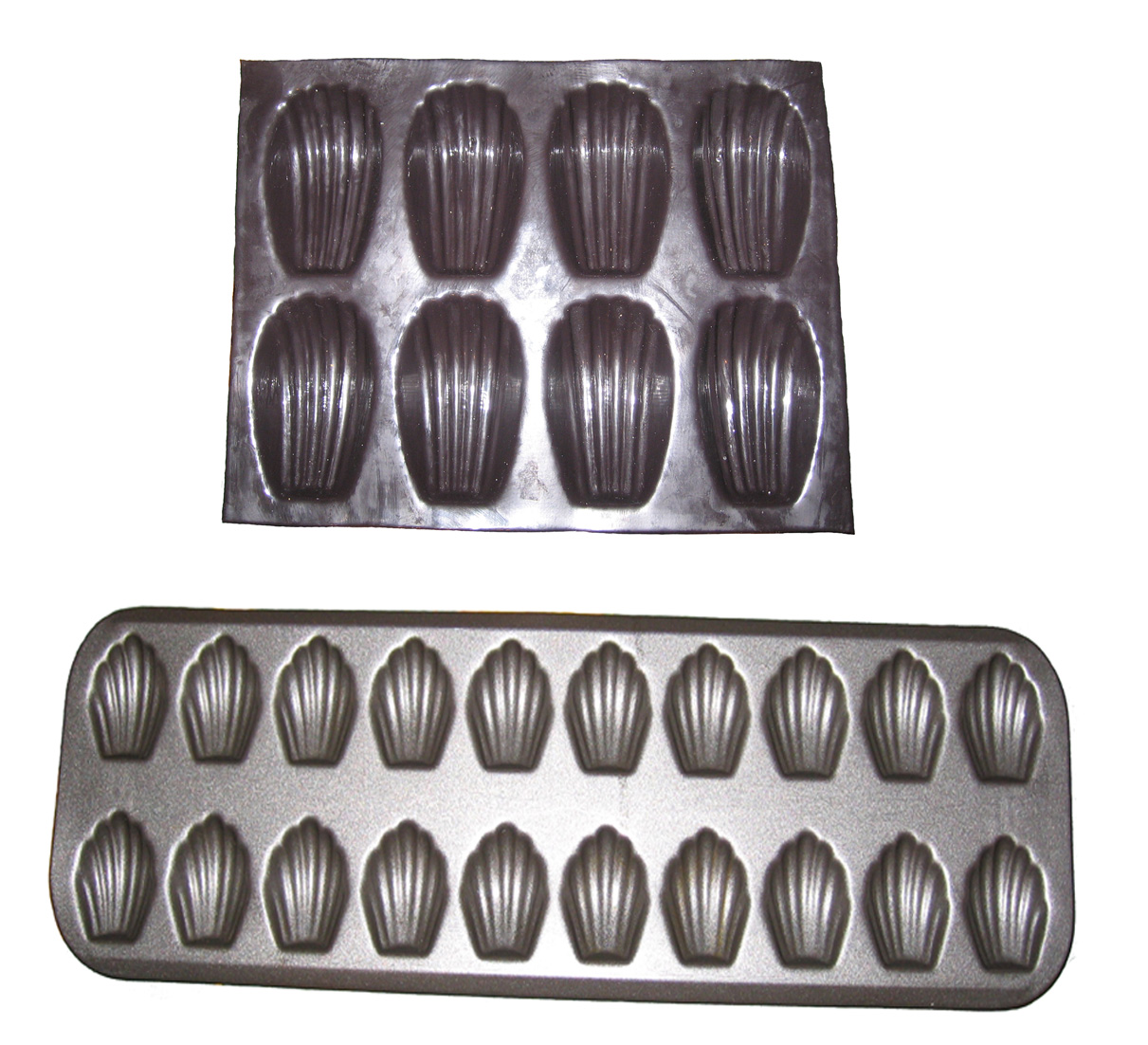 Above: a madeleine pan made of silicone. Below: a madeleinette pan (a smaller version of madeleines) made of steel.